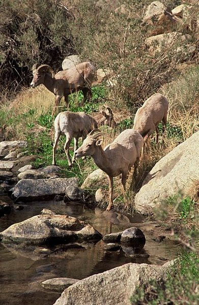 Taken at Anza-Borrego State Park, California, at Palm Canyon. Greg Bulla